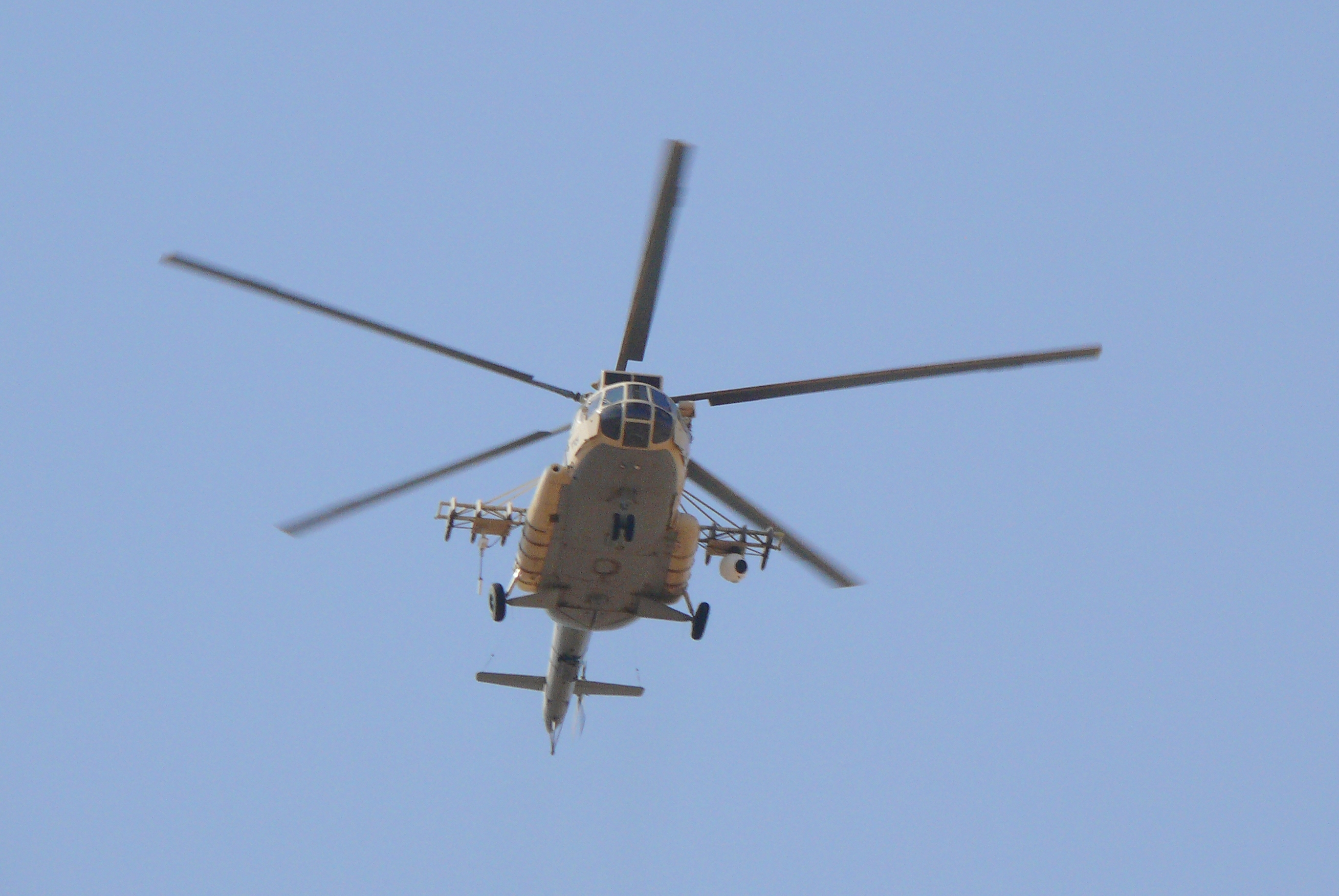 Mil Mi-8/17 Hip 3257 of the Egyptian civil police above Aswan.